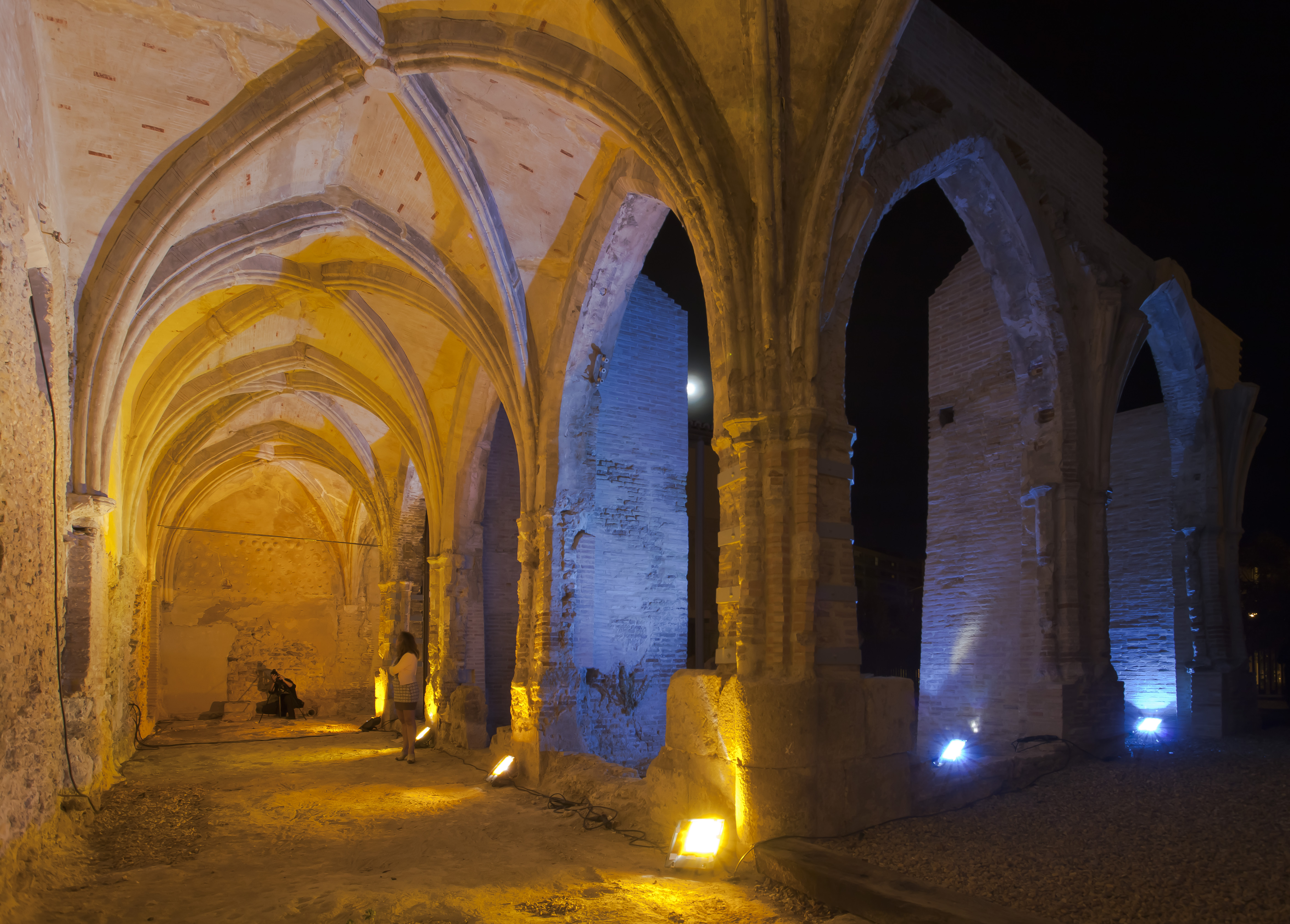 Cloister of the Collegiate of the Santo Sepulcro, Calatayud, Spain